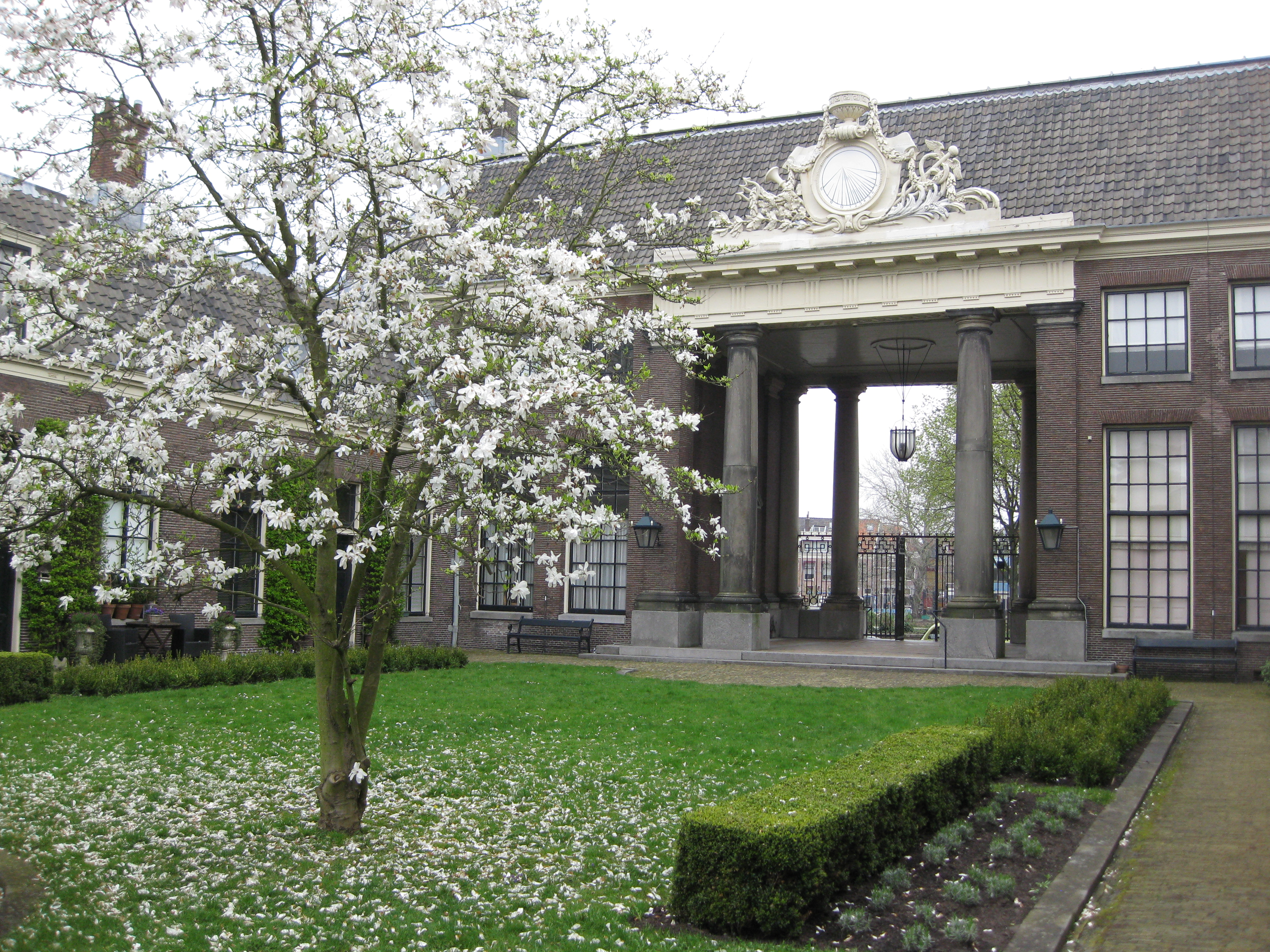 Haarlem, Spaarne, Pieter Teyler van der Hulst, Leendert Viervant